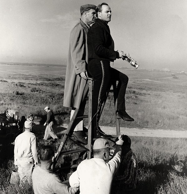 Charles Lang (cinematographer) & Marlon Brando (director-actor) on the set of One-Eyed Jacks